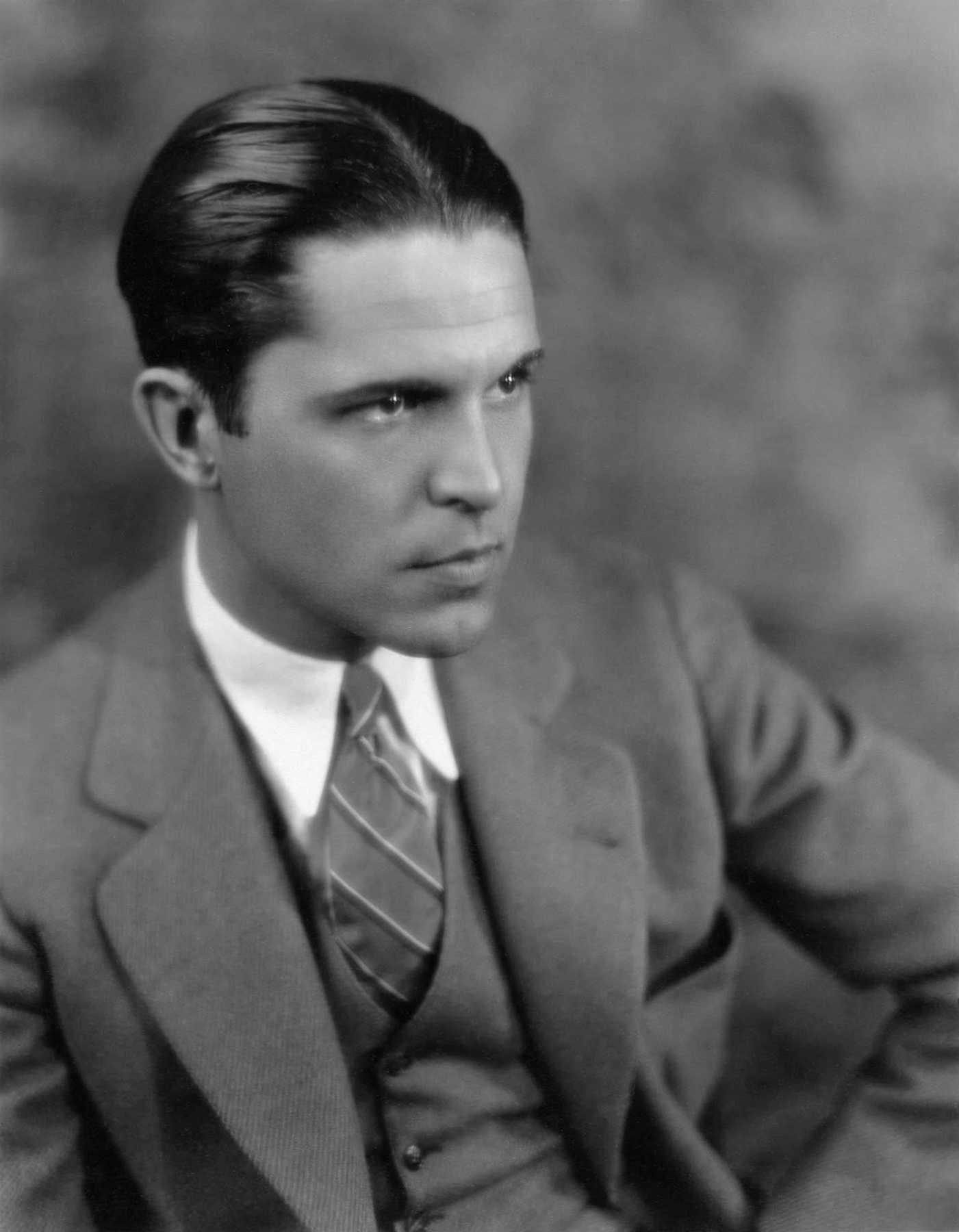 Malcolm McGregor in Lady of the Night - publicity still